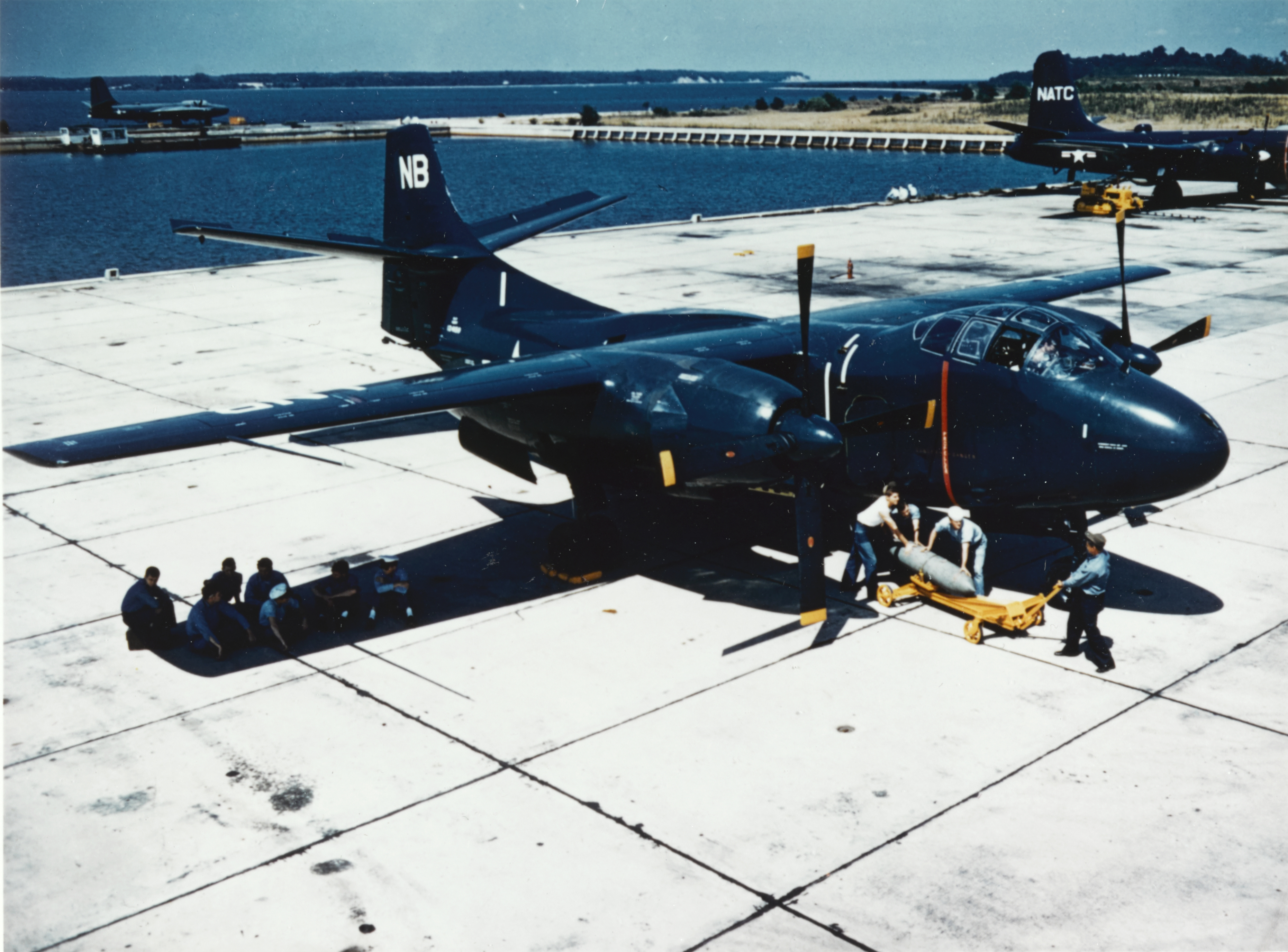 A U.S. Navy North American AJ-1 Savage at the Naval Air Station Patuxent River, Maryland (USA), circa in the early 1950s. The aircraft was assigned to Composite Squadron 5 (VC-5) "Savage Sons". A Martin P4M-1 Mercator is partly visible on the right.